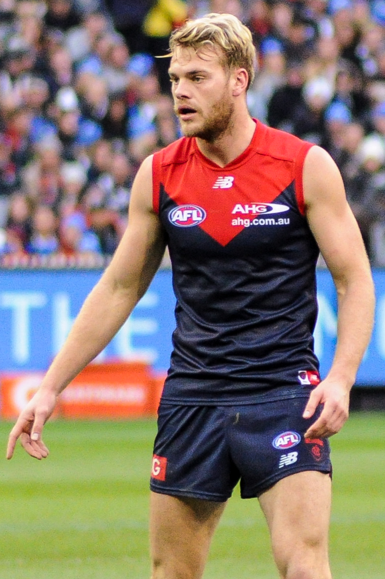 Jack Watts during the AFL round twelve match between Melbourne and Collingwood on 12 June 2017 at the Melbourne Cricket Ground in Melbourne, Victoria.